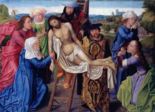 Descent from the Cross (1530-1537) by an anonymous disciple of Gerard David; It is part of the Polyptych of Esporão Chapel (Cathedral of Évora) and now is on display at Museu de Évora, Portugal.